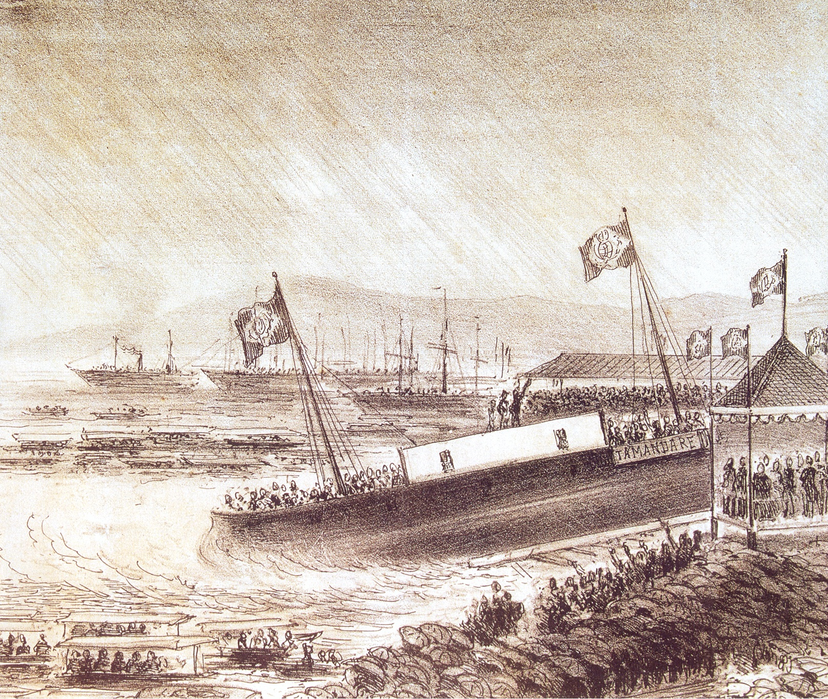 The Brazilian ironclad Tamandaré is launched to the sea for the very first time. Lithography published in Semana Illustrada magazine, 1865.